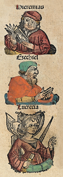 Woodcut from the Nuremberg Chronicle